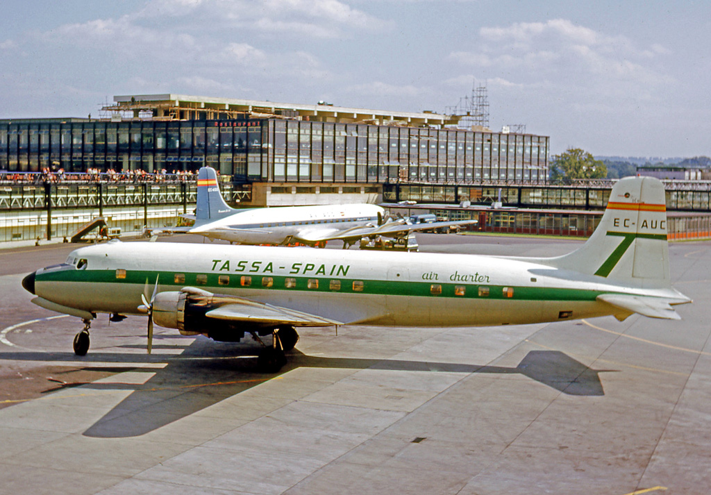 The Prototype Douglas DC-6 (XC-112A) EC-AUC of TASSA at London Gatwick in 1964